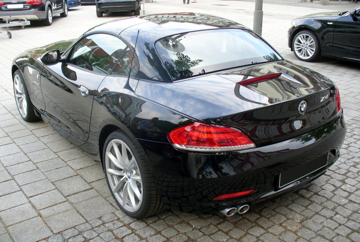 BMW E89 Z4 sDrive23i